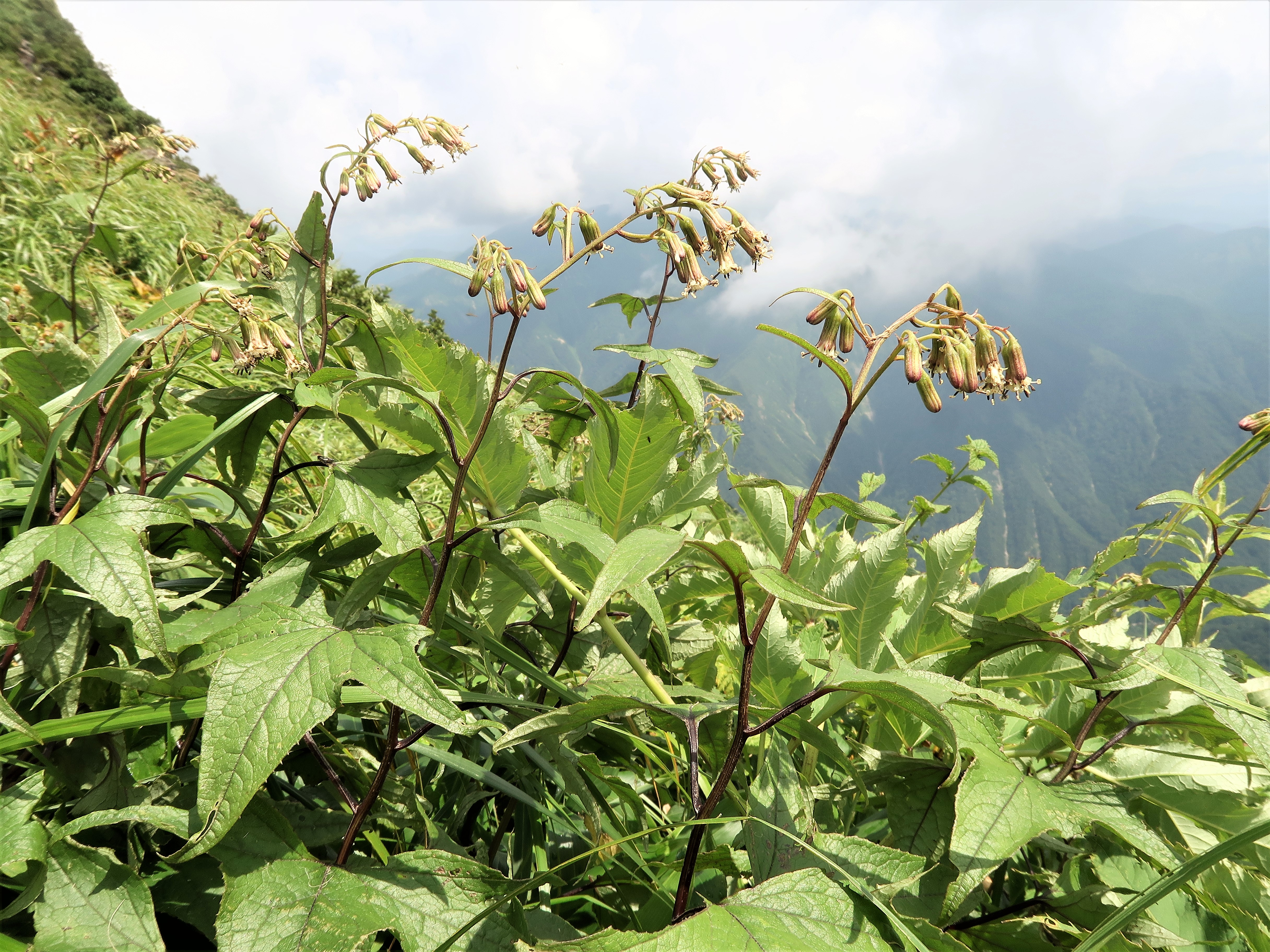 Parasenecio nantaicus, Mount Tanigawa-dake, Gunma pref., Japan